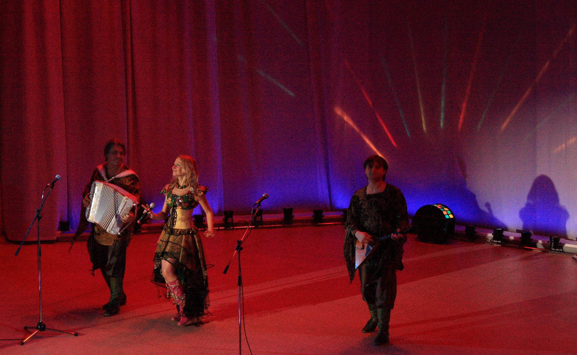 «Belyj den» (band of Russia) in Severodvinsk (Elena Vasiliok, Valery Syomin, Vladimir Golubchikov).